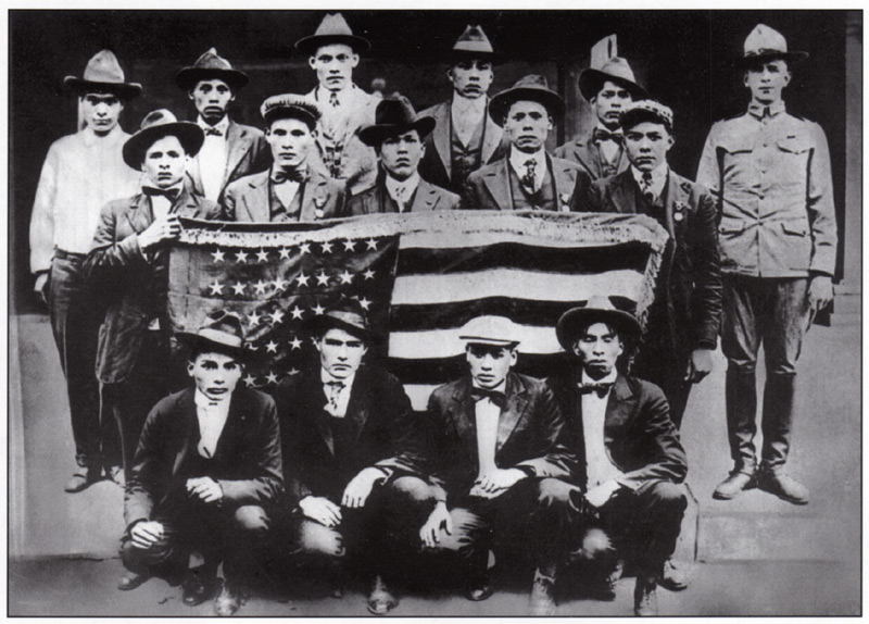 Choctaws in training in World War I for coded radio and telephone transmissions. Photo Courtesy of Oklahoma Historical Society